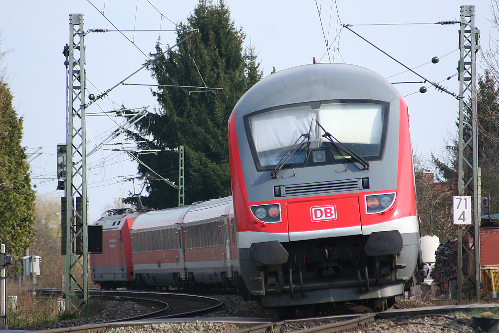 A Munich-Nuremberg-Express en route to Munich on the line's most narrow curve in Reichertshofen.